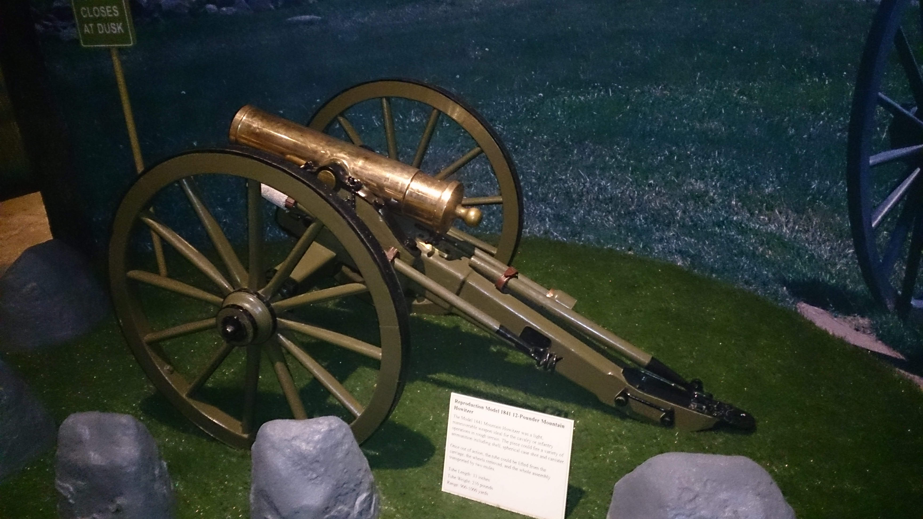 One of the exhibits in Kenosha Civil War Museum